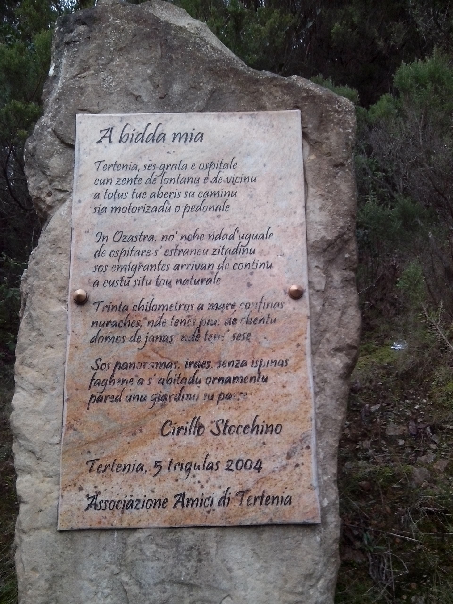 A Sardinian poem by Cirillo Stocchino carved in a monument in Tertenia